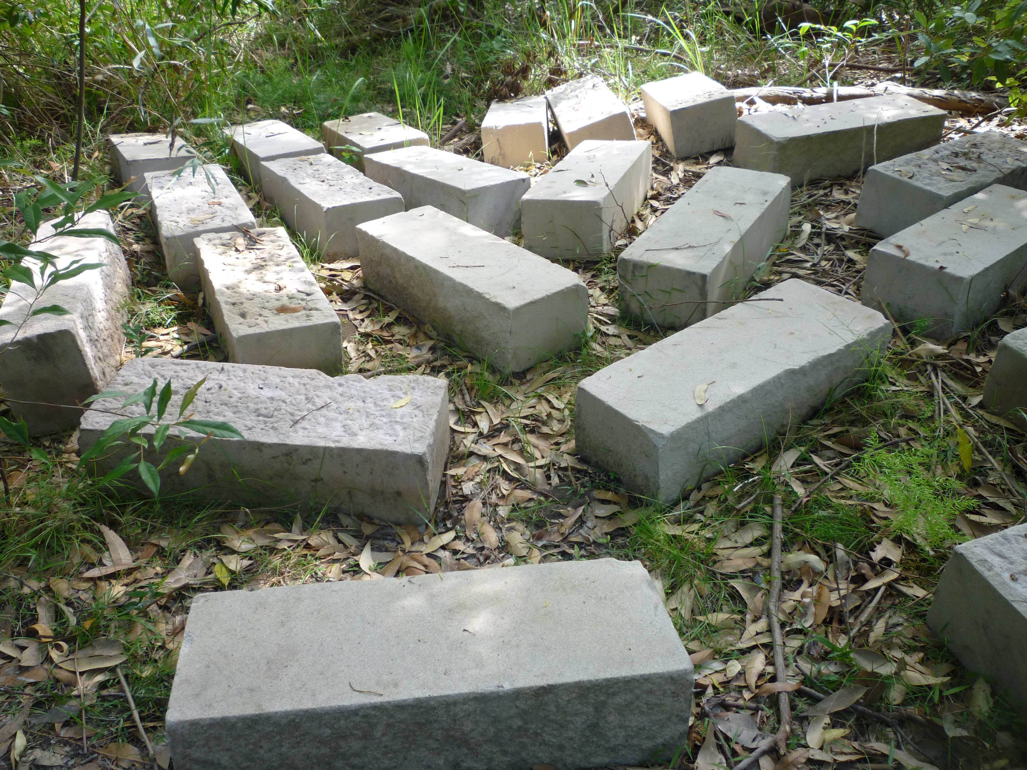 Discarded blocks of hewn Sydney sandstone